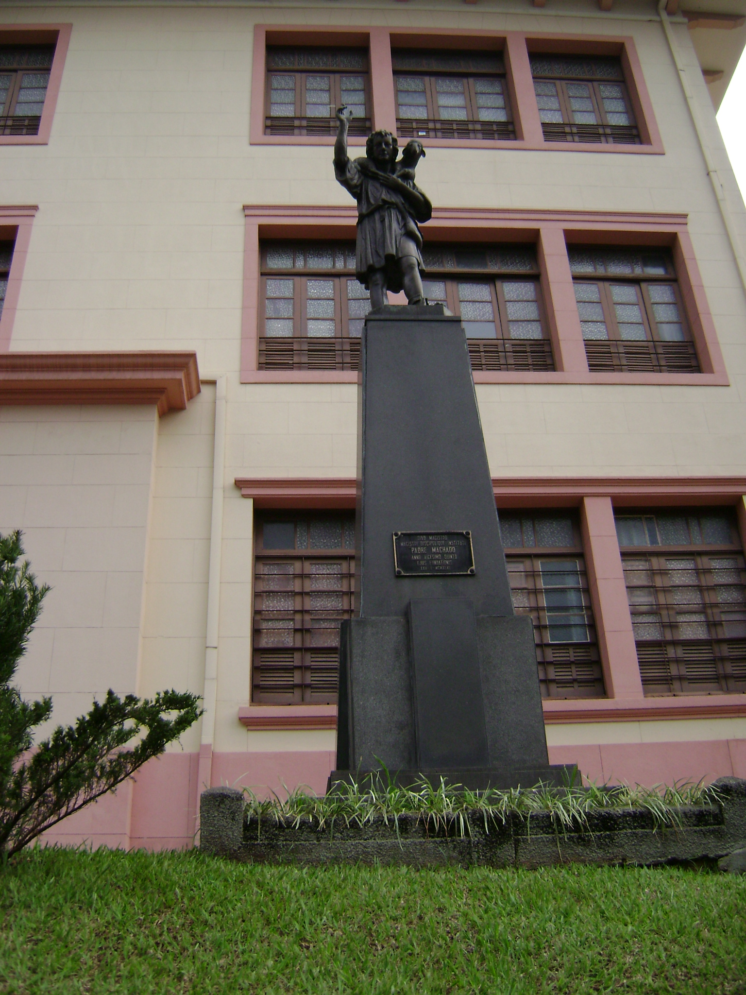 Estátua do Padre Machado, na entrada do instituto de mesmo nome, em Belo Horizonte.